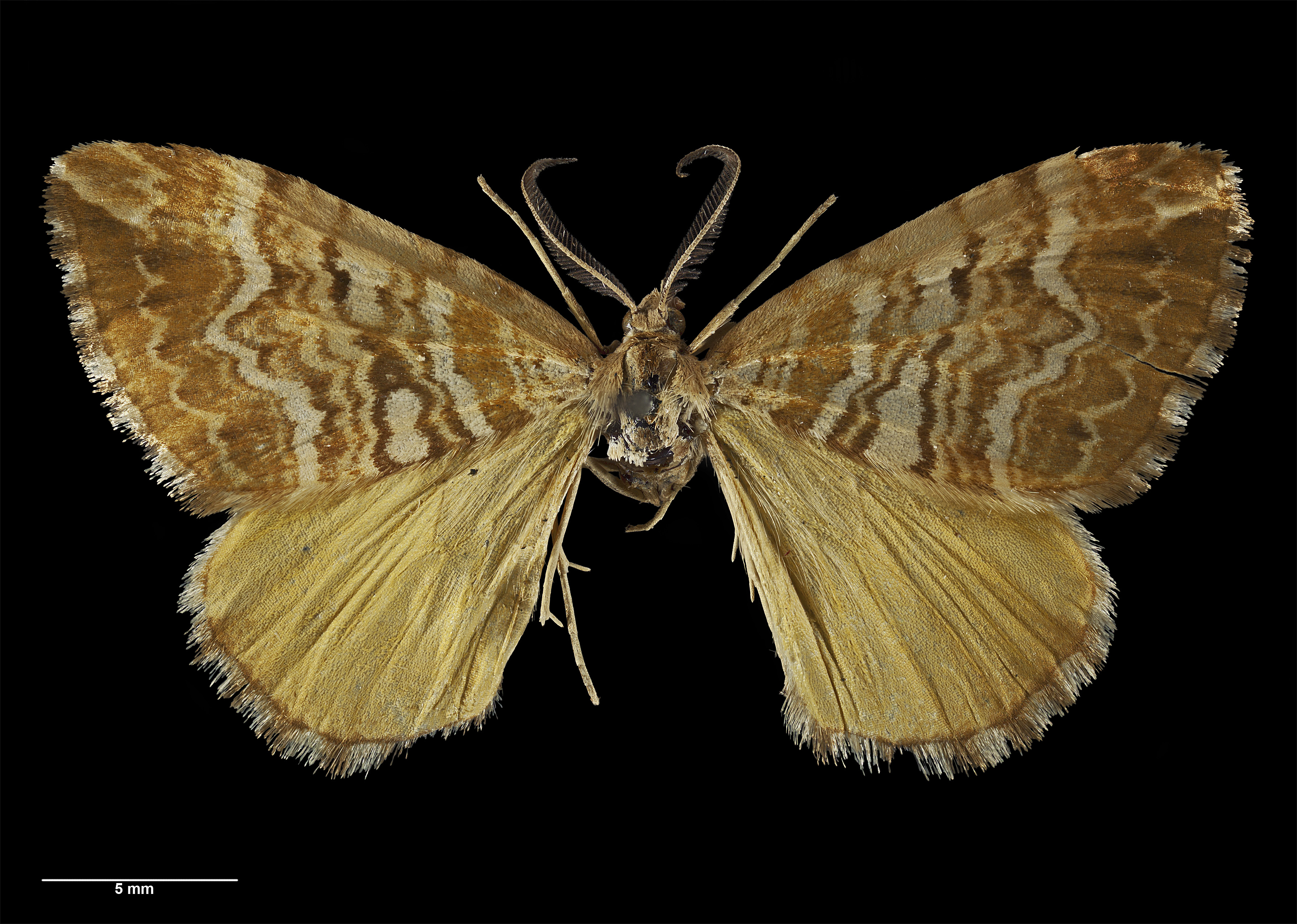 Male holotype specimen of Asaphodes citroena AMNZ21821 held at the Auckland War Memorial Museum.